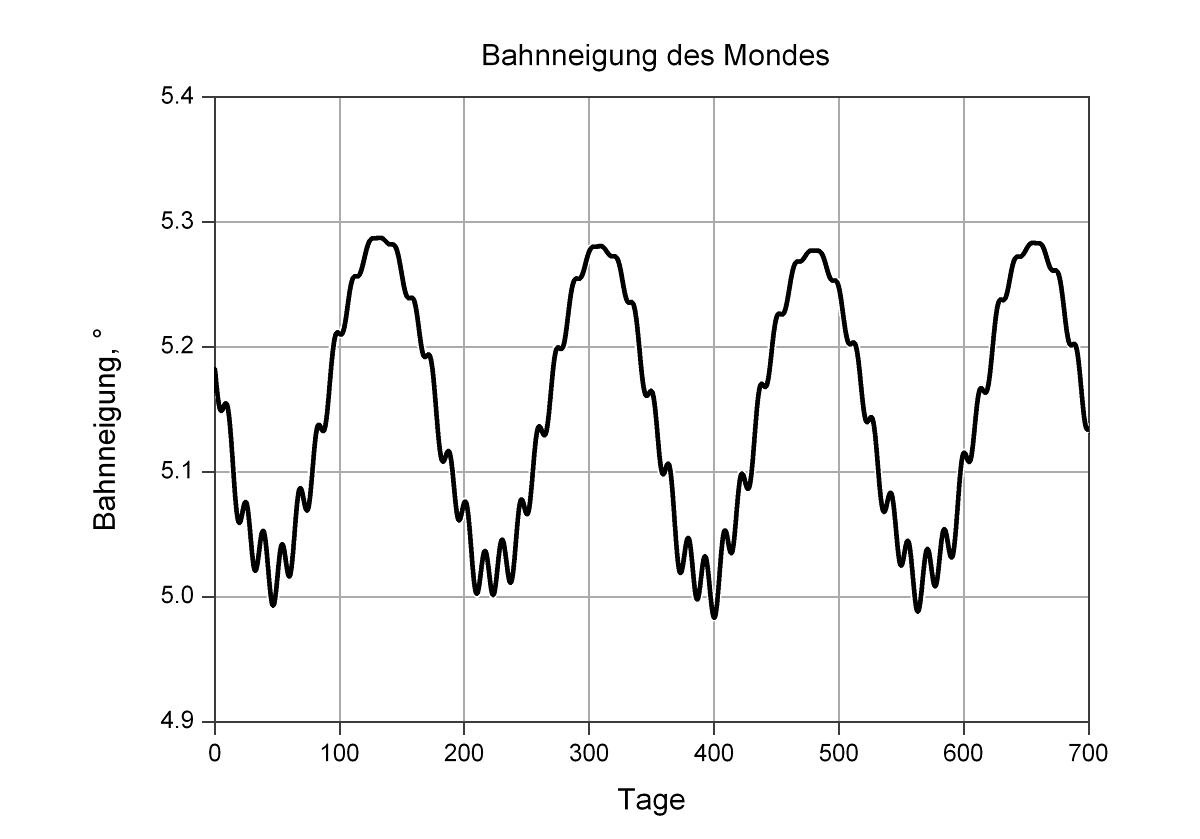 Variation of the inclination of the instantaneous osculating ellipse describing the Moon's orbit over 700 days. Drawn by myself. Data from JPL's HORIZONS ephemeris generator.